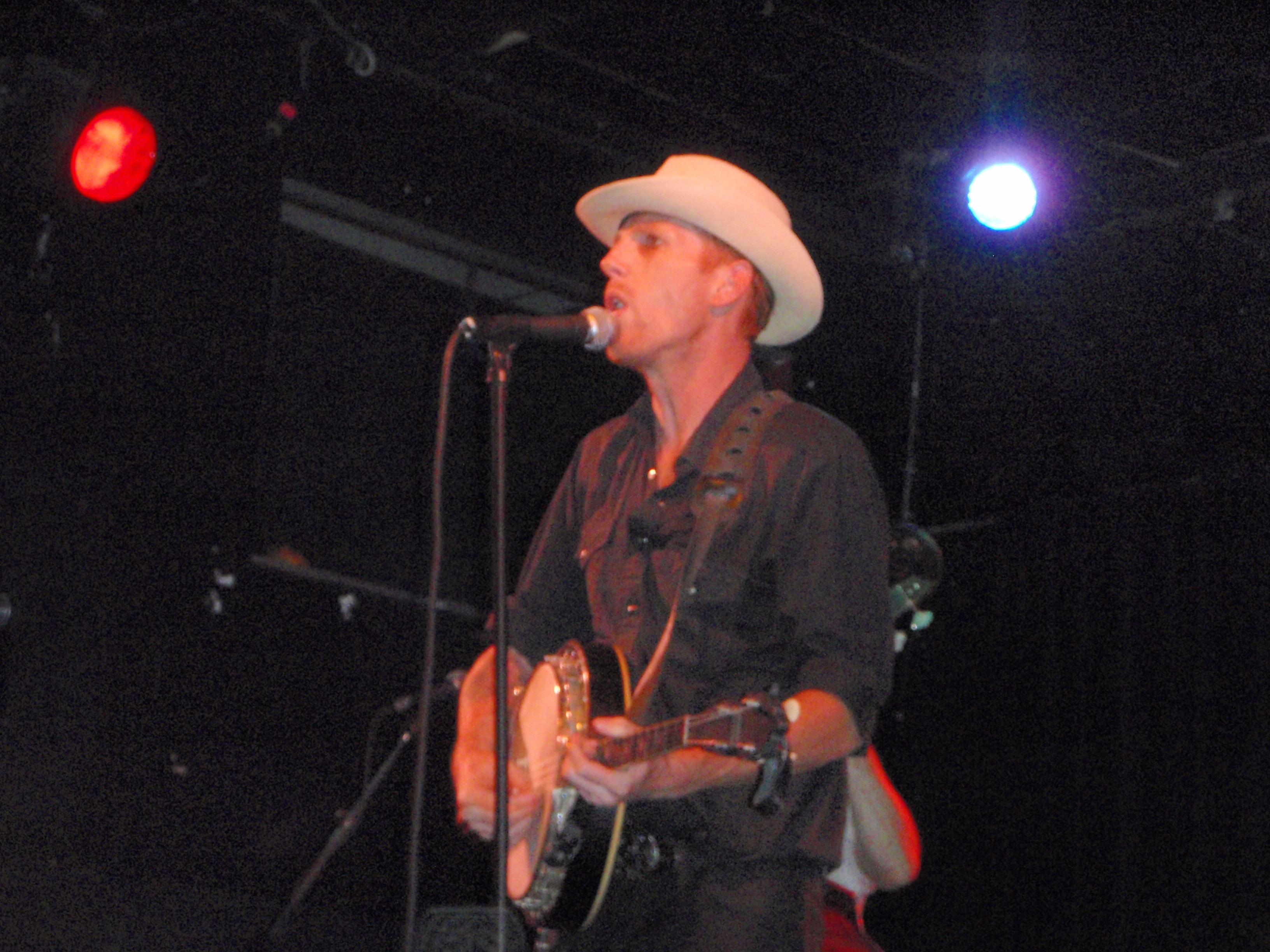 Musician Jay Munly performing with Slim Cessna's Auto Club at Lee's Palace, Toronto, Canada.